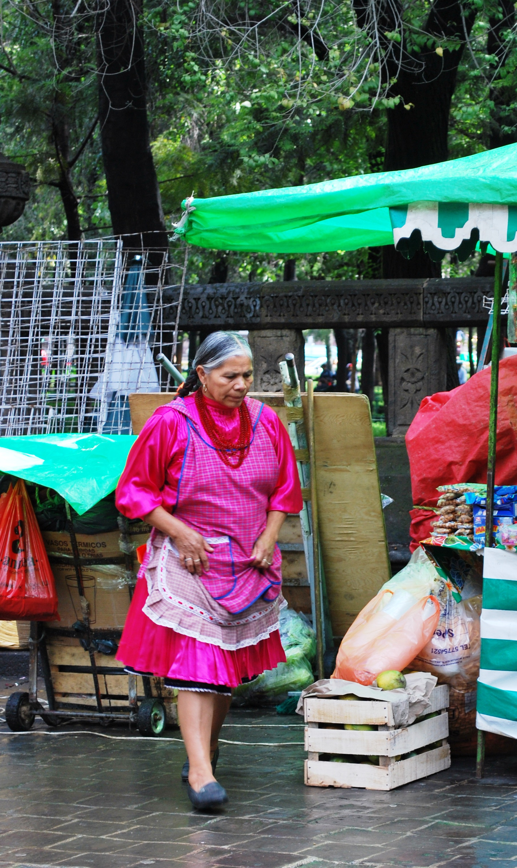 Mazahua woman in indigenous dress working outside her stall at the Alameda Central in Mexico City